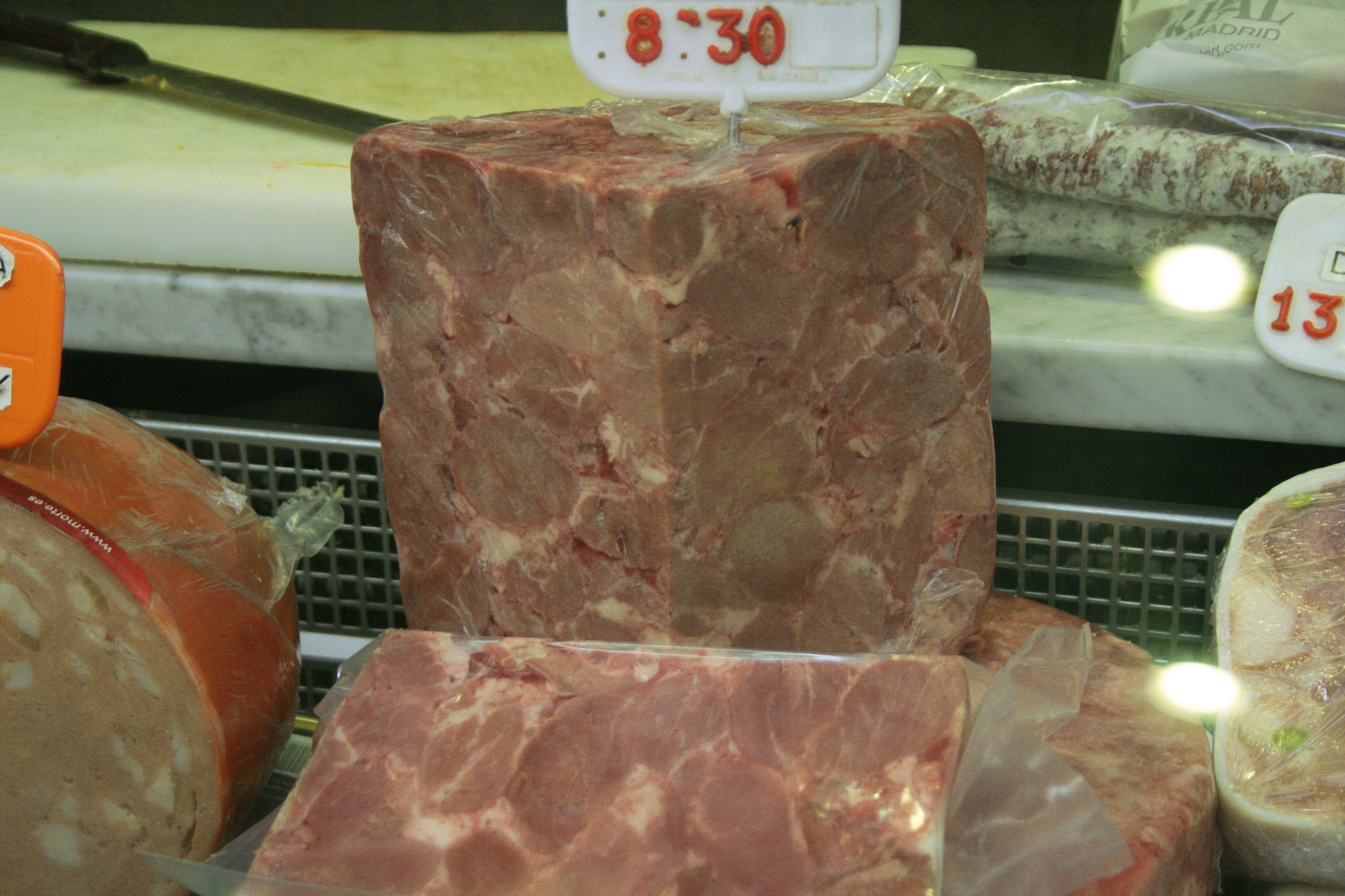 Head cheese